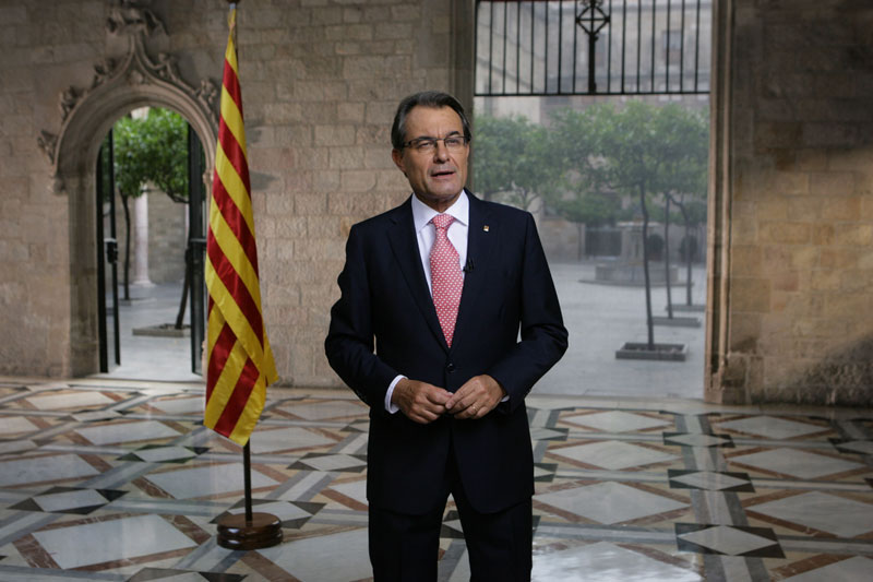 2013 Institutional event of the National Day of Catalonia - Discurs institucional